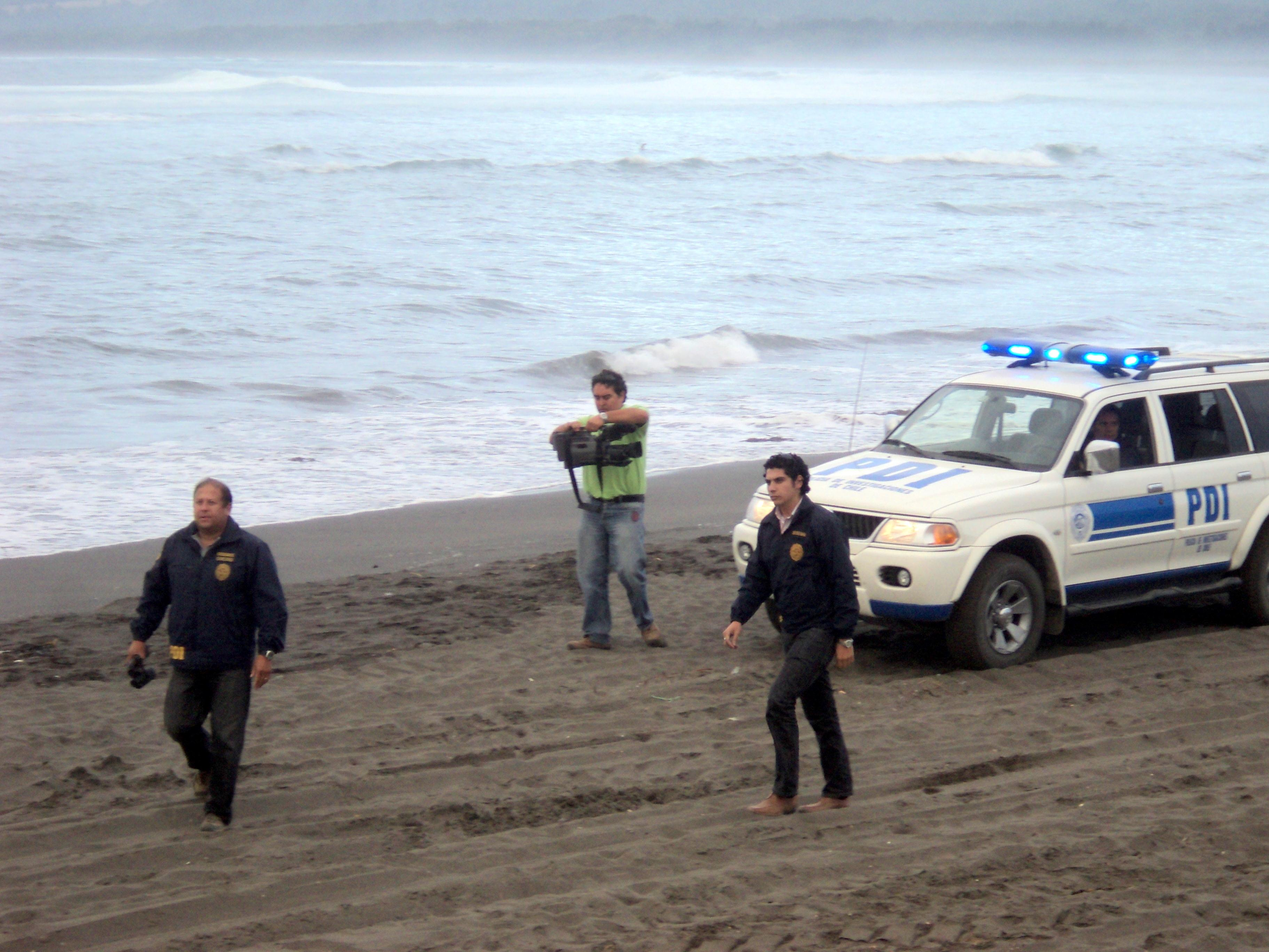 Investigations Police of Chile personnel evacuating the people in Pichilemu beach, on March 11, 2011, during the Japanese tsunami emergency.